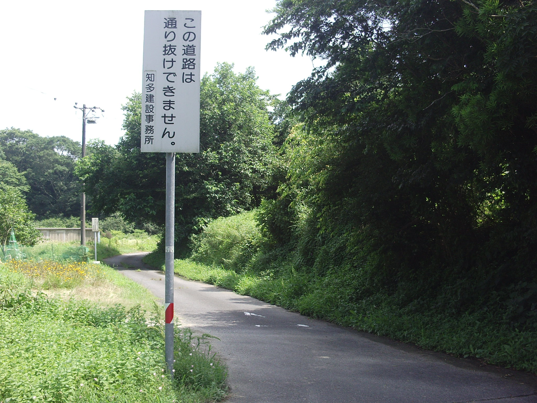 Narrow path section of the Aichi Prefectural Road Route 276 in Oaza-Utsumi Aza-Uchida, Minamichita Town